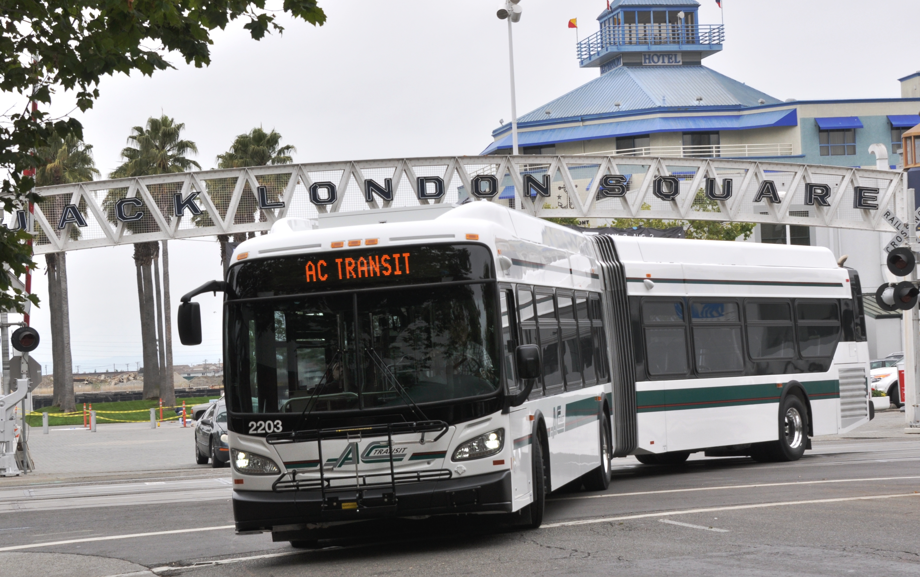 AC Transit bus 2203, a New Flyer Xcelsior D60 photographed on June 5, 2013, at Jack London Square in Oakland.